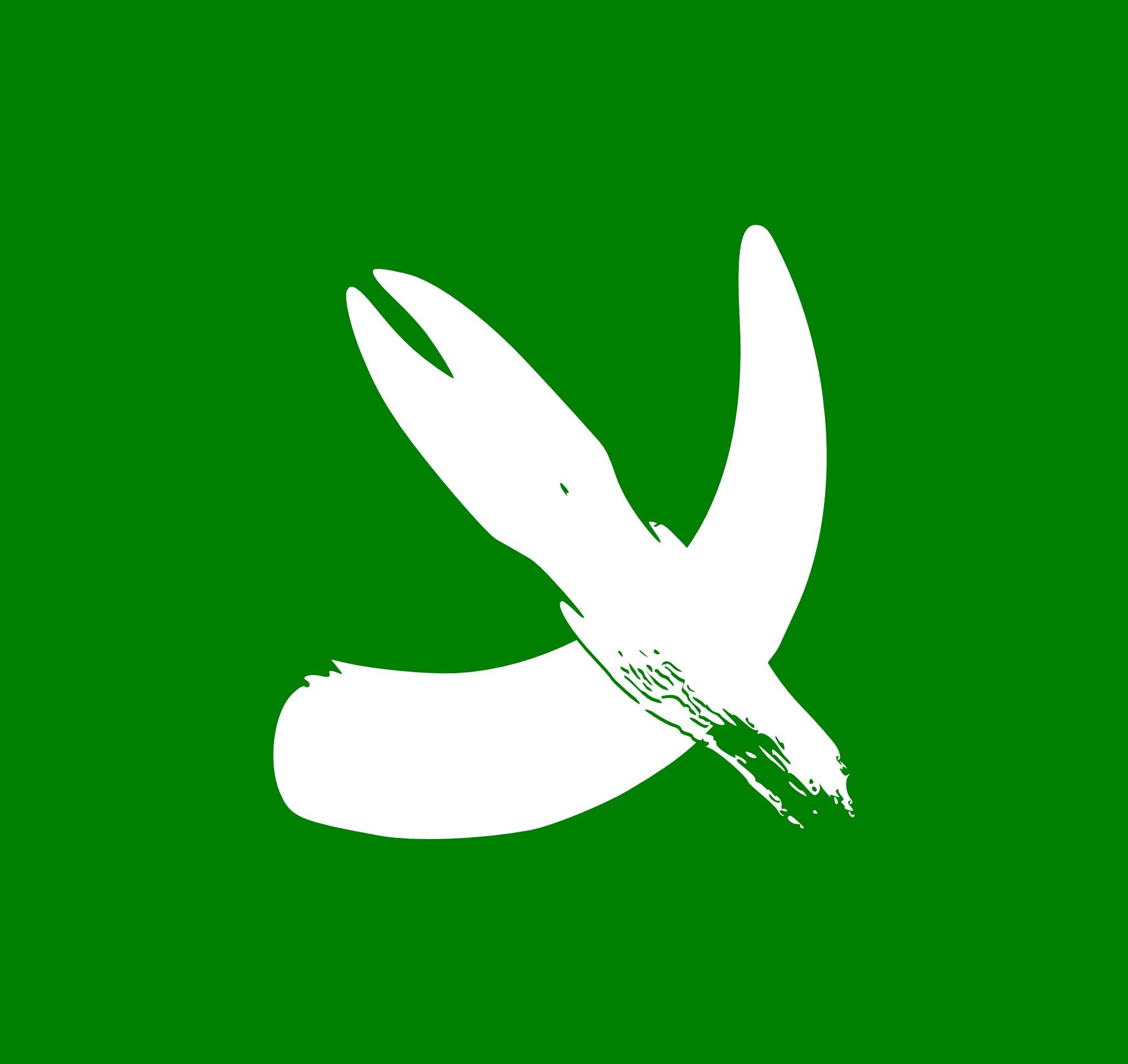 Square version of the flag of Animalism, in Animal Farm, by George Orwell. The flag of Animal Farm consists of a green field with a hoof and a horn. According to the book, the green represents the fields of England, while the hoof and horn represents the Republic of the Animals. This version is based on the hammer and sickle and the red flag of the Soviet Union, probable reference of the green flag.